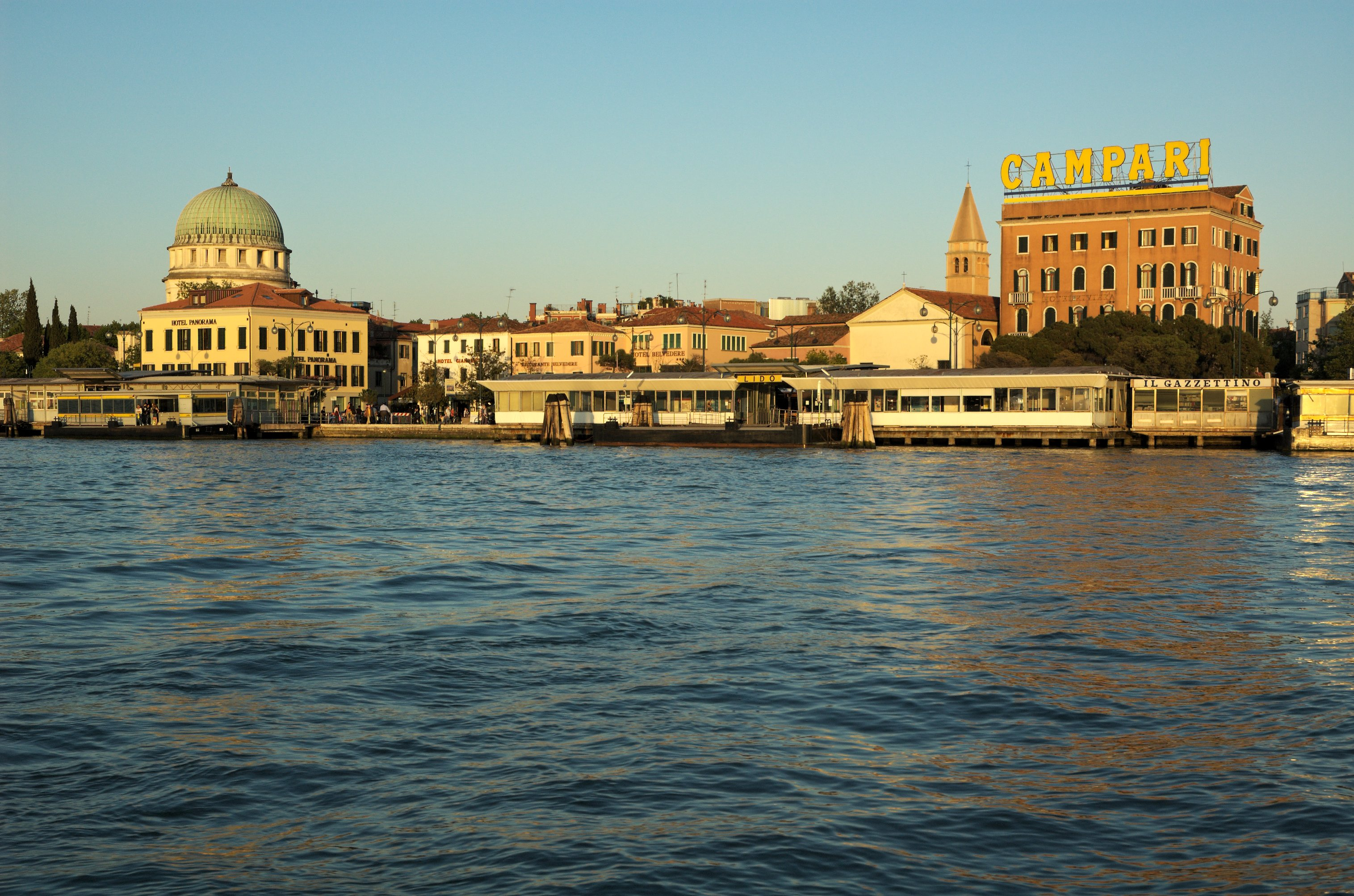 Lido vaporetto terminal, seen from the Venetian Lagoon at sunset.